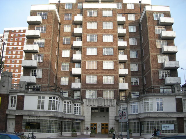 The Grampians, Shepherds Bush Road